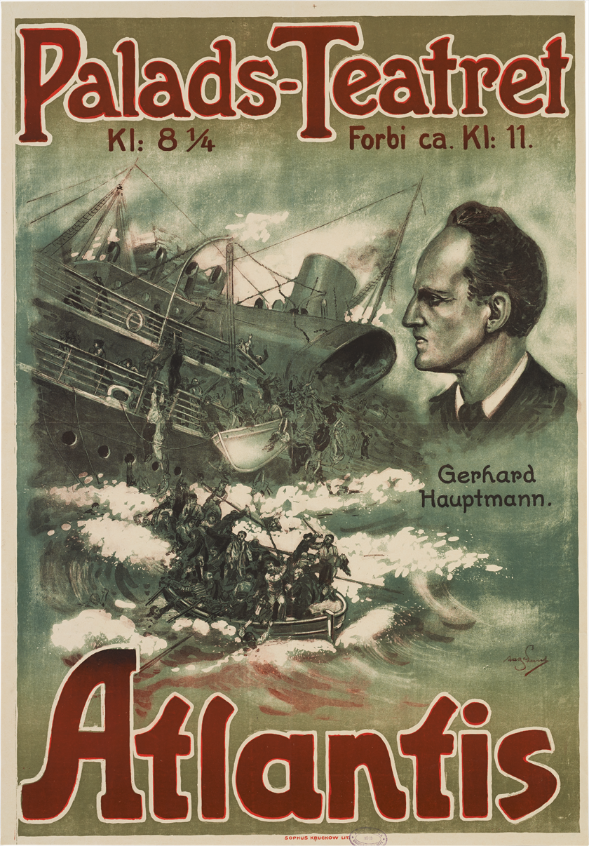 Silent Film Poster